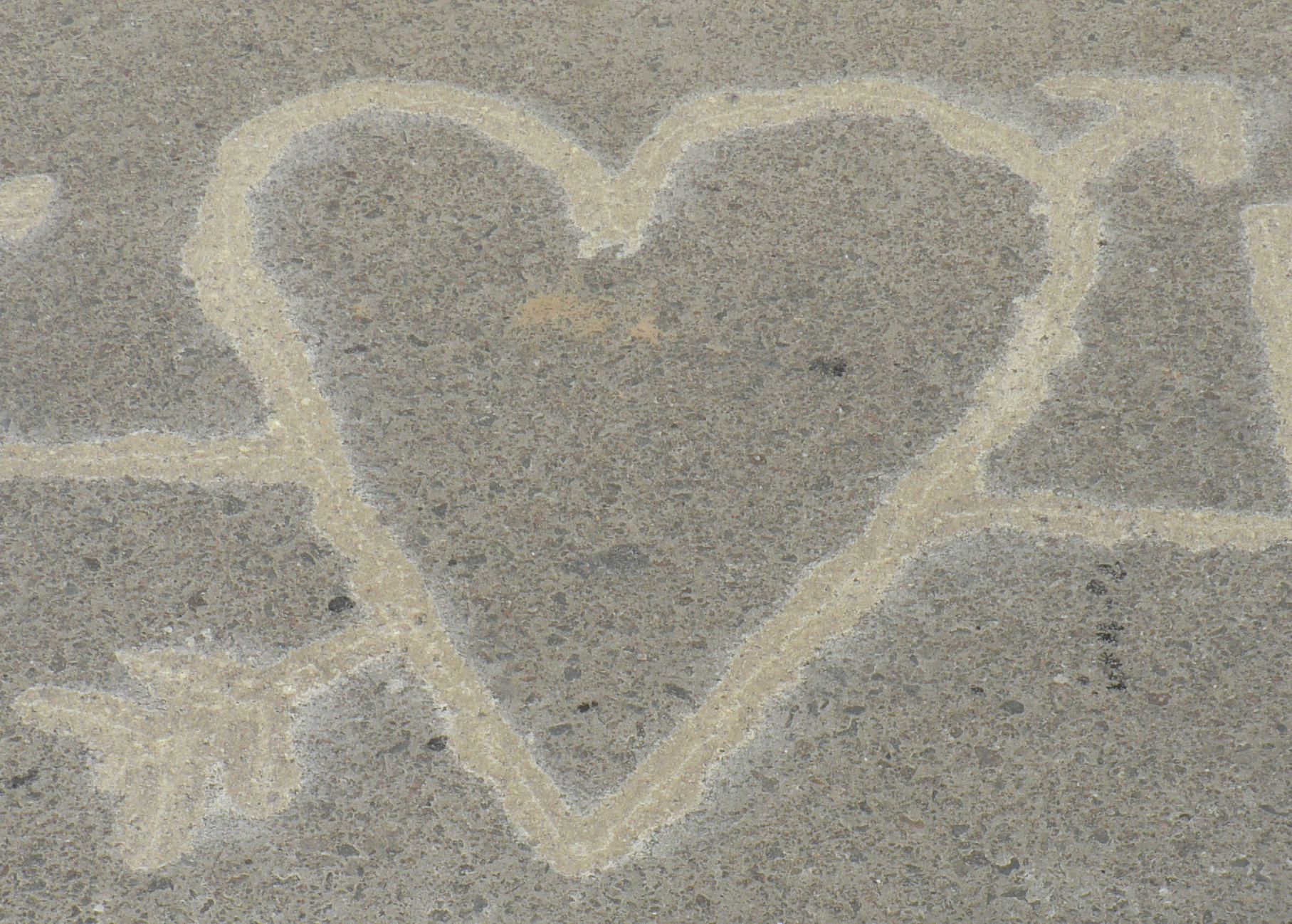 traces of burning heart on street surface